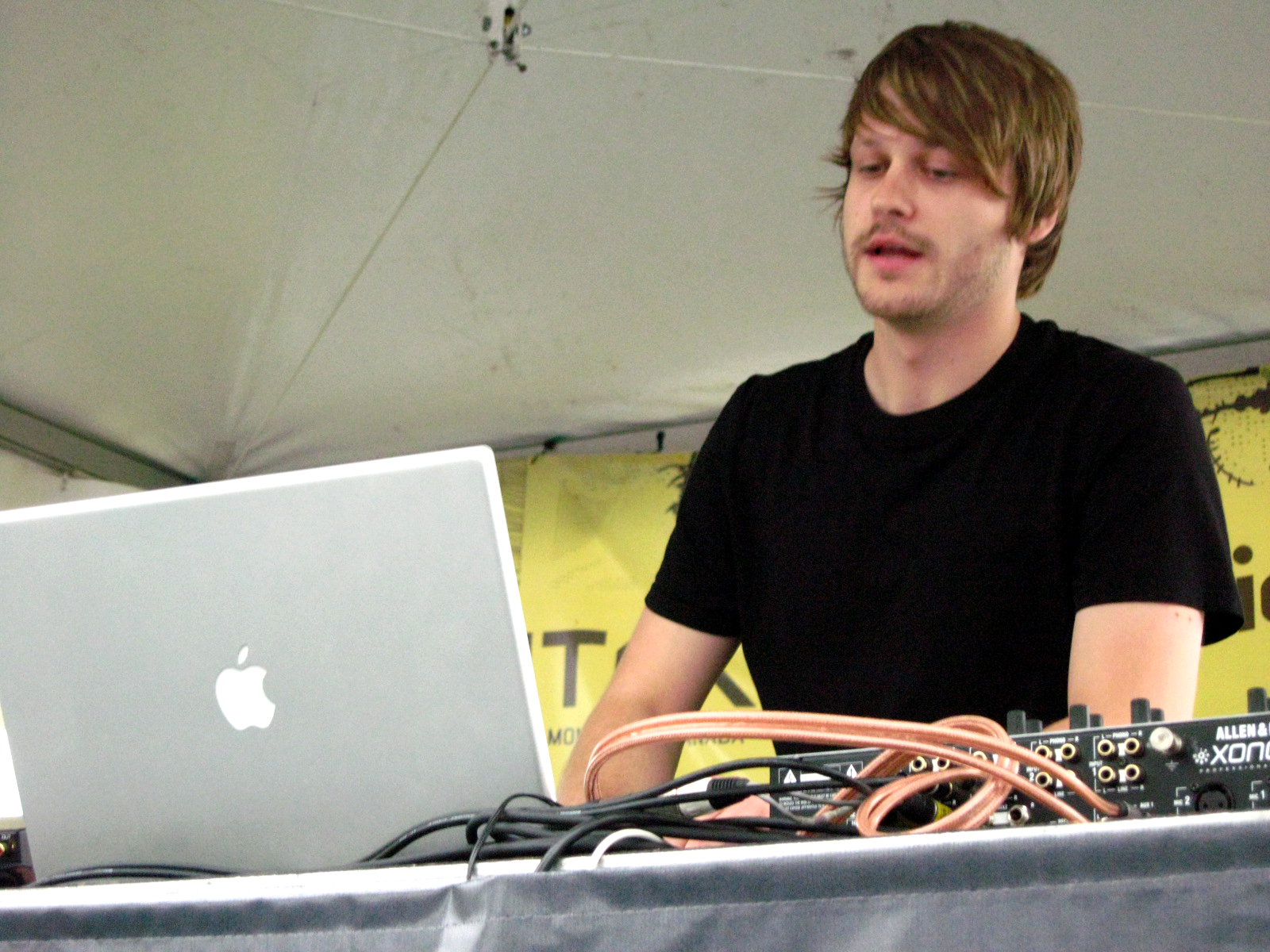 German DJ Mathias Kaden performing at Mutek 2008